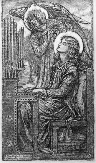 St. Cecilia playing the organ. Chalk drawing, 30.5 x 17.2 cm.